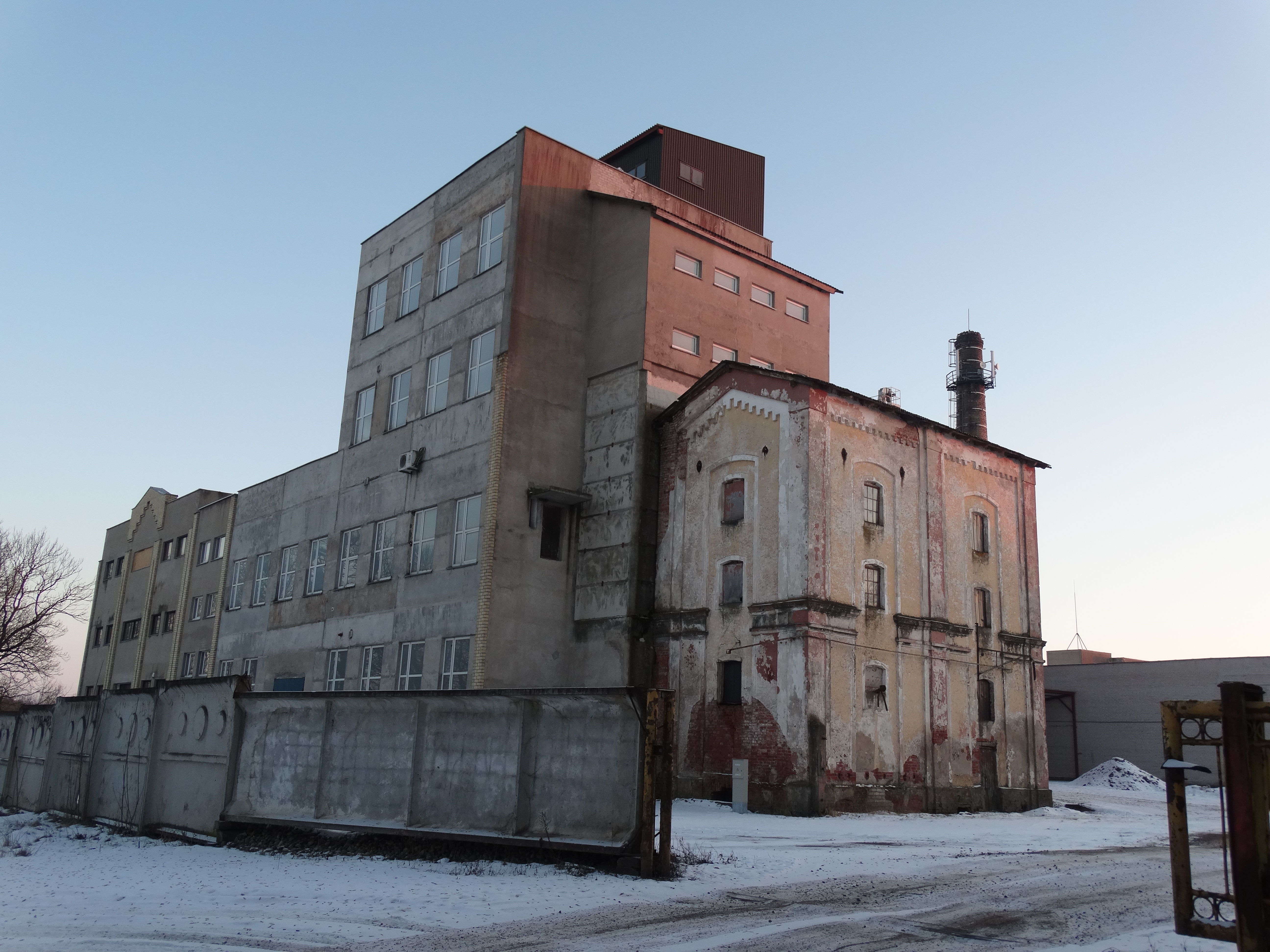 Former manor, Antanavas, Kazlų Rūda municipality, Lithuania